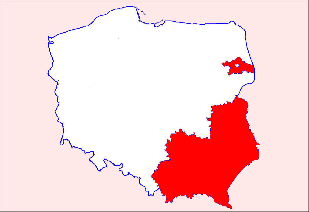 English July 2019 map of Poland where LGBT-free zones have been declared on the Voivodeship (provinces) or Powiat (counties) level. Sources (for Powiats and Voivodeships): Polish towns advocate ‘LGBT-free’ zones while the ruling party cheers them on, Washington Post, 21 July 2019, Where in Poland were the resolutions adopted against "LGBT ideology"?, ONET, 23 July 2019